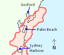 Map of the progress of the en:1999 Sydney hailstorm in its' northern phase. For entire map, see Image:1999SydHail Map.PNG. CC3.0 license.